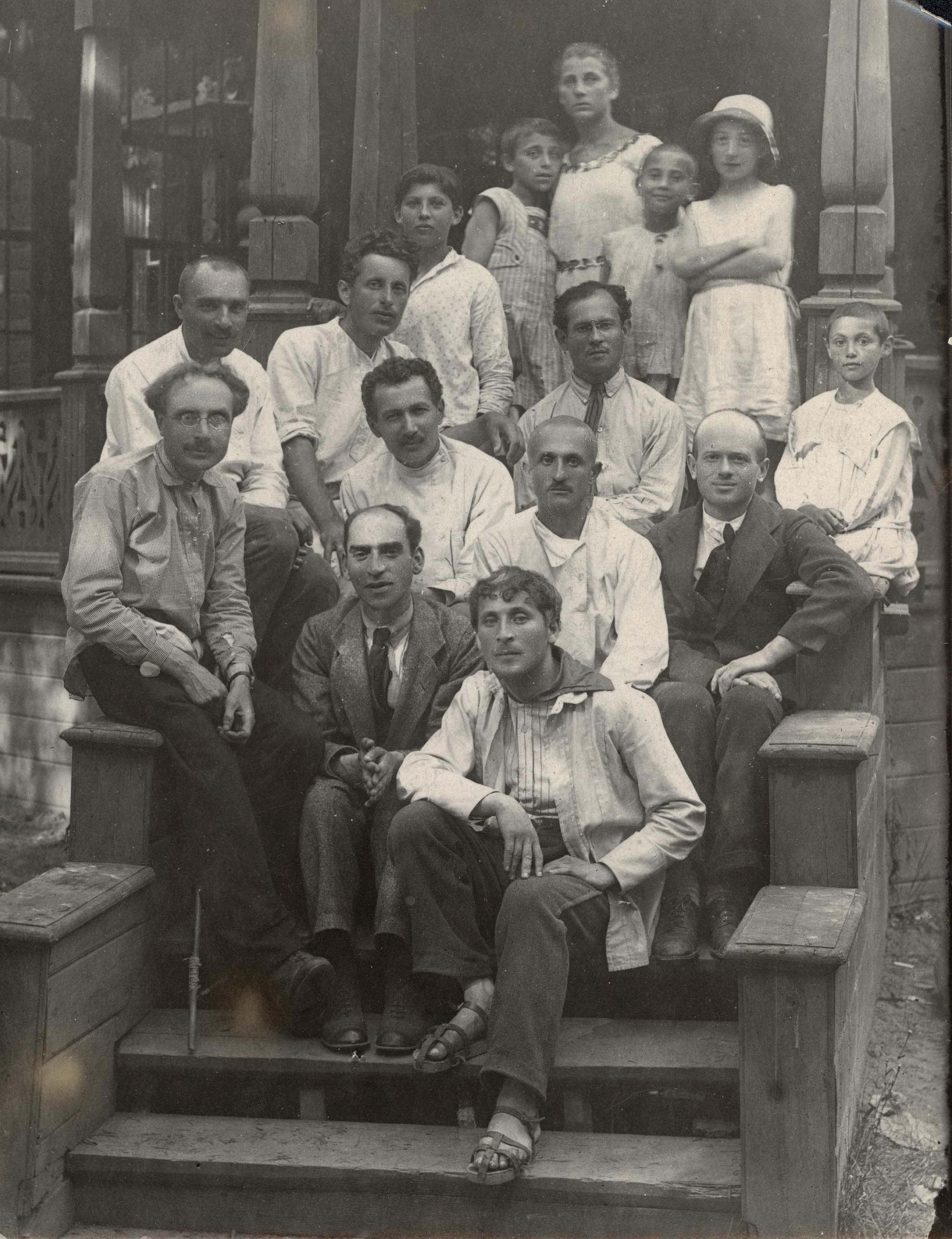 The painter Marc Chagal (front) with teachers and children at the Malakhovka children's colony near Moscow in 1921. Chagal Left Russia shortly after. To the left of Marc Chagall (bottom right) is writer Zvi Girshkan. In the second row from left to right: writer Simha Tomshinsky, Ukrainian Yiddish poet David Gofshtain (aka Hofstein), composer Yoel Engel, and literary critic Yekhezkel Dobrushin. Sitting left behind Chagall is the Yiddish writer Der Nister, one of many who had returned to the Soviet Union to participate in Yiddish cultural life (in 1952 he became a victim of the campaign against "Cosmopolitans").